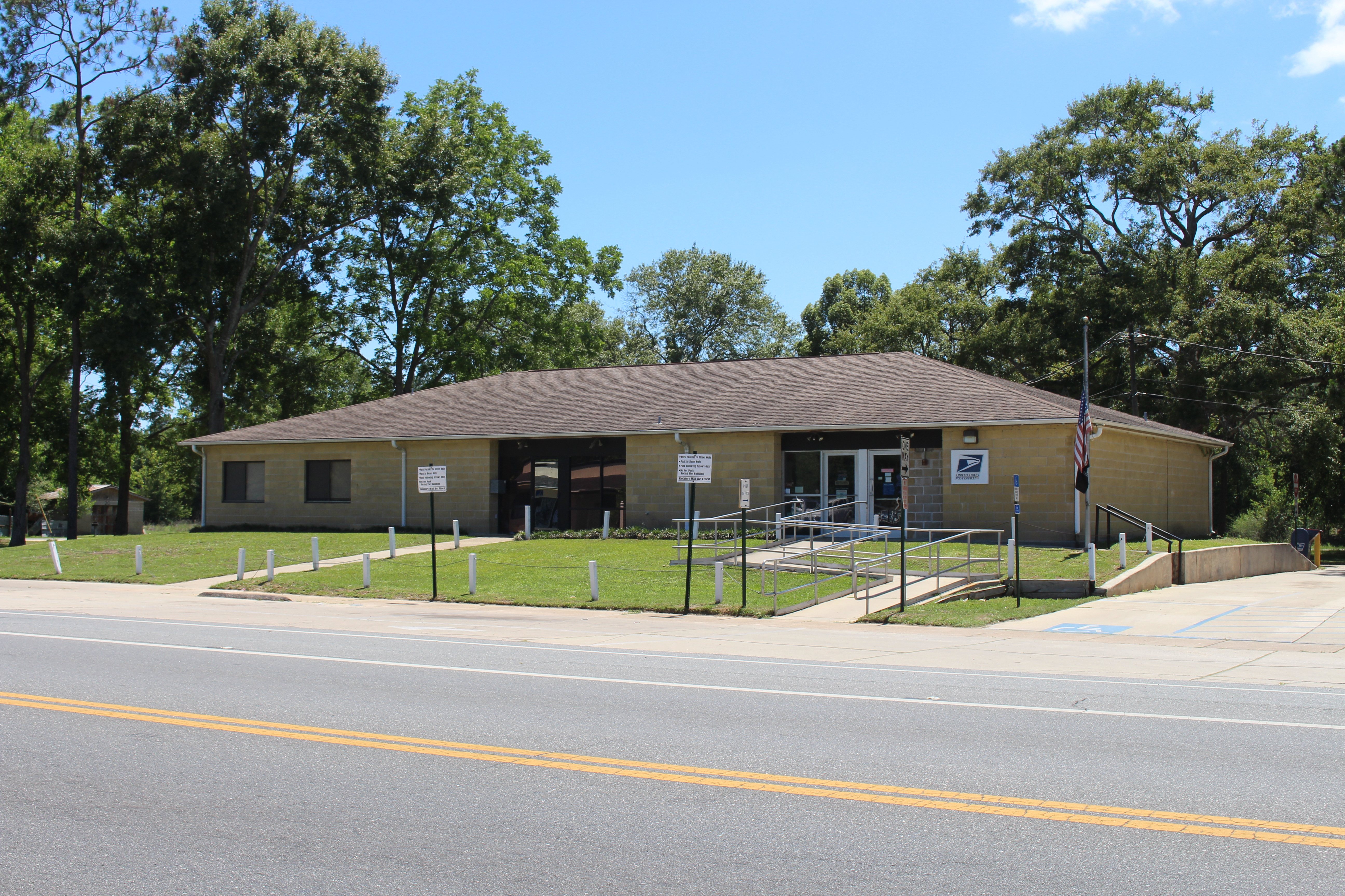 Gretna Post Office, Gadsden County, Florida